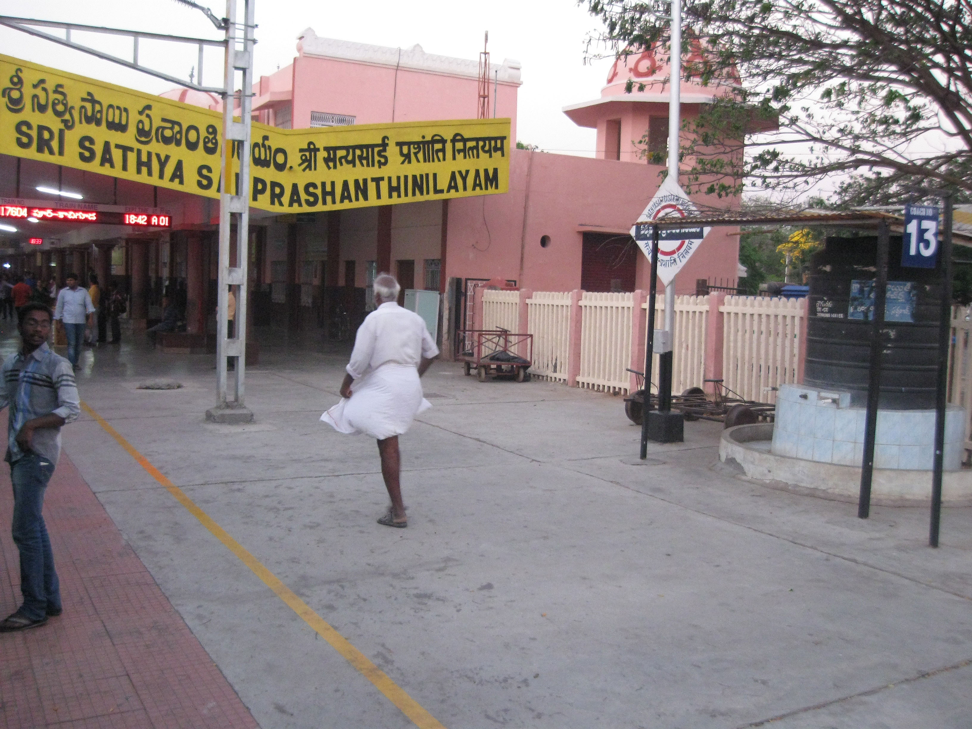 Platform No.1 of Prashanti Nilayam Railway Station